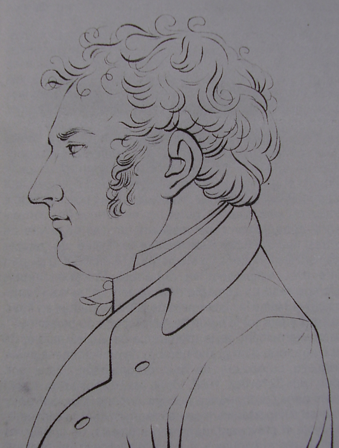 Picture of Charles Weiss, French historian and librarian